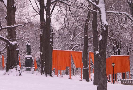 Gates in the snow